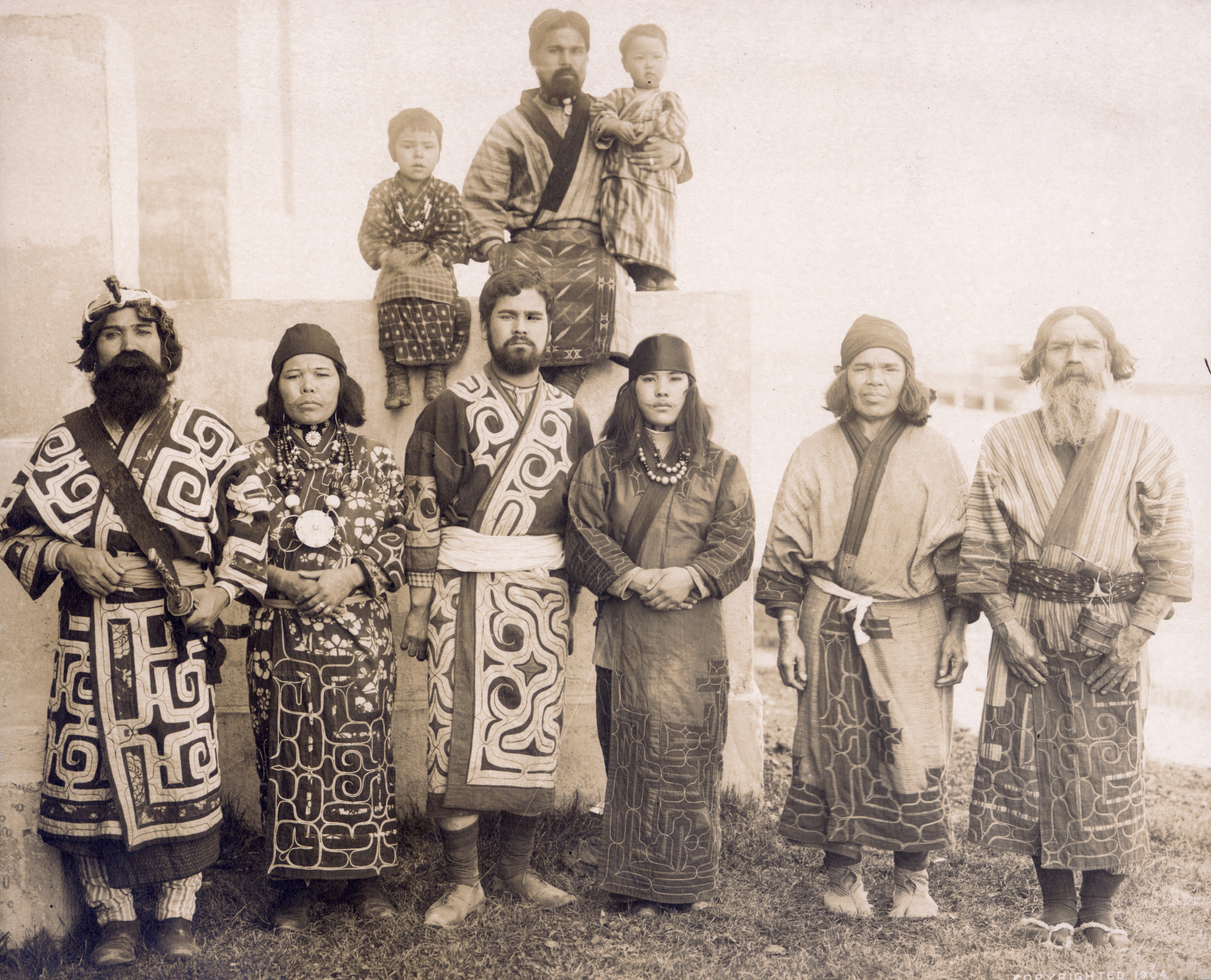 Title: "Ainus in national Gala-Costume, married women with tattooed mustache." Department of Anthropology, Japanese exhibit, 1904 World's Fair.